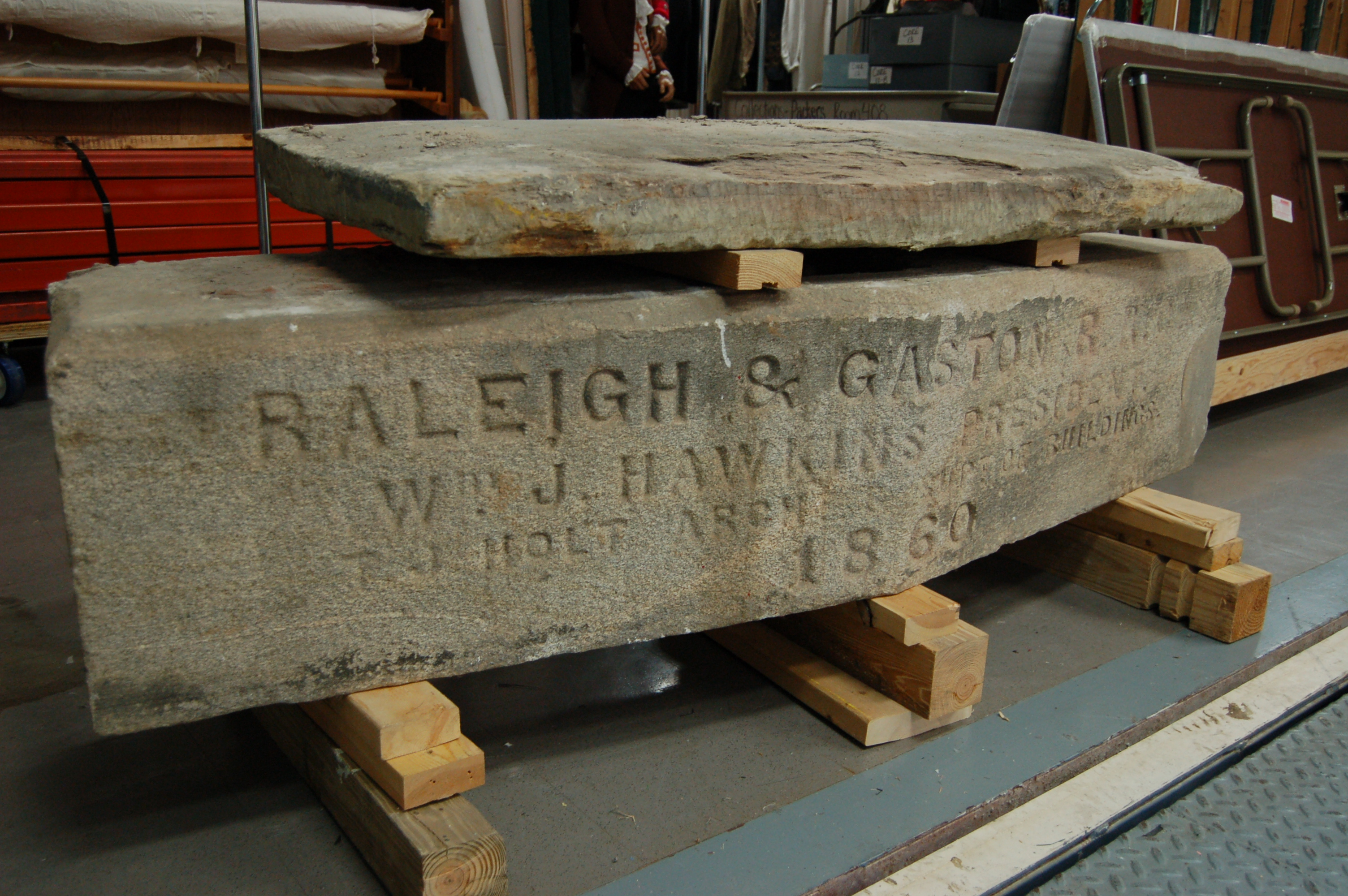 The 1860 cornerstone of the long-gone Raleigh and Gaston Railroad building as seen on 12 September 2008. The building once stood where the North Carolina state government complex now stands. The cornerstone is now in storage at the North Carolina Museum of History in Raleigh, NC. The Raleigh and Gaston Railroad merged with the Seaboard Air Line Railroad in 1900.